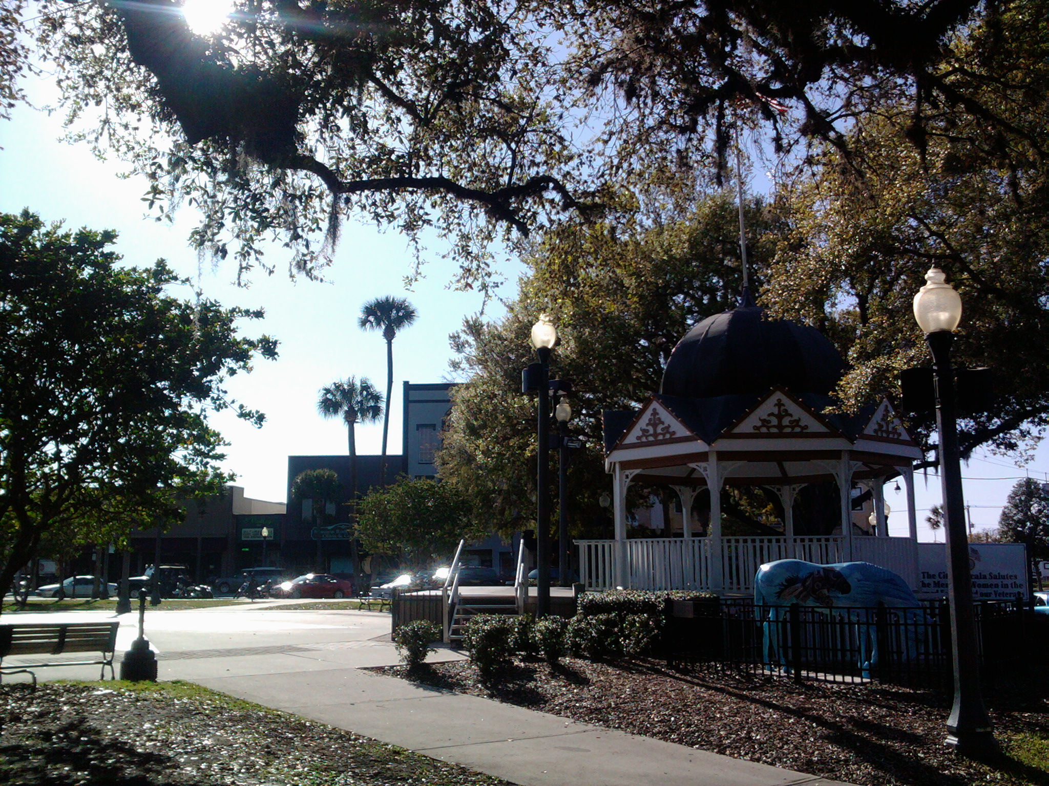 View of Ocala's Downtown Square Gazebo and "Horse Fever" sculpture. Ocala is known for its rolling hills, majestic oaks, and as the "Horse Capital of the World."